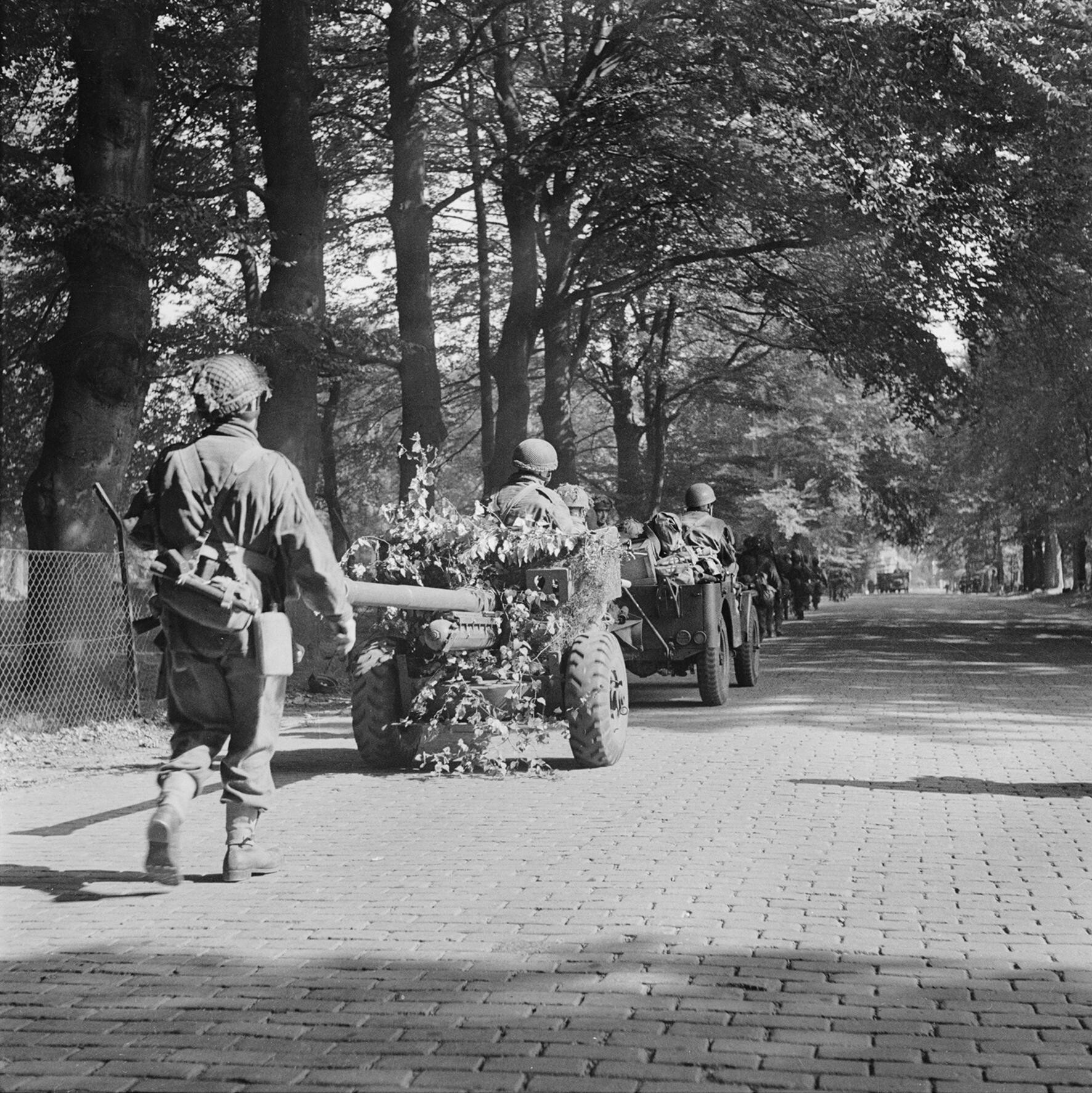 The British Airborne Division at Arnhem and Oosterbeek in Holland Men of the 2nd Battalion South Staffordshire Regiment entering Oosterbeek along the Utrechtsweg on their way towards Arnhem, 18 September 1944.